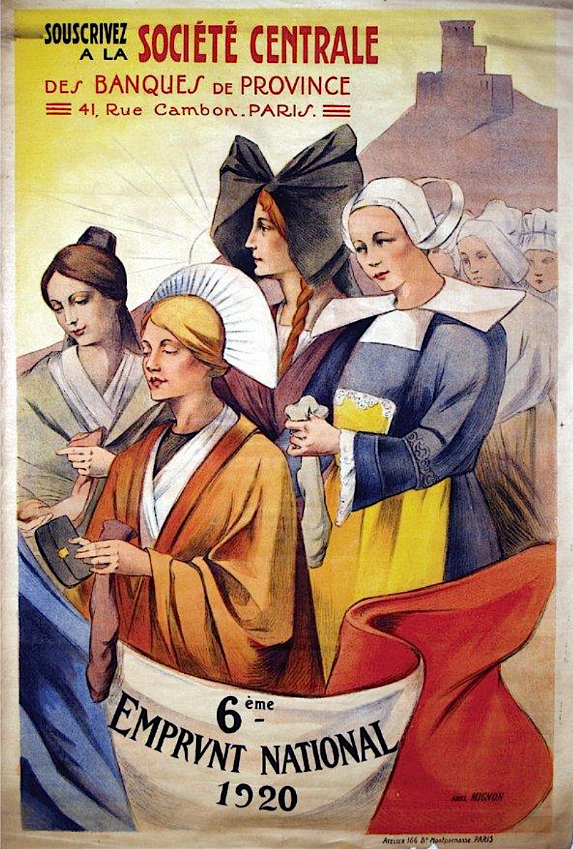 6ème Emprunt National 1920, Lithographic poster printed Atelier 166 Montparnasse Paris. Dim.: 117 x 77 cm.